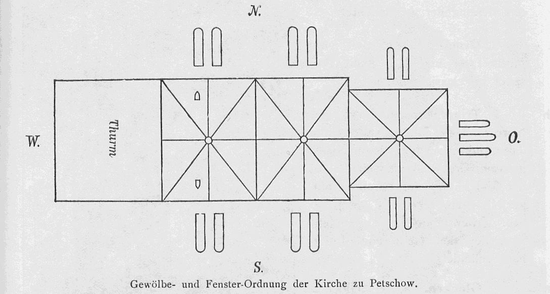 Footprint of the Church in Petschow, Mecklenburg, Germany